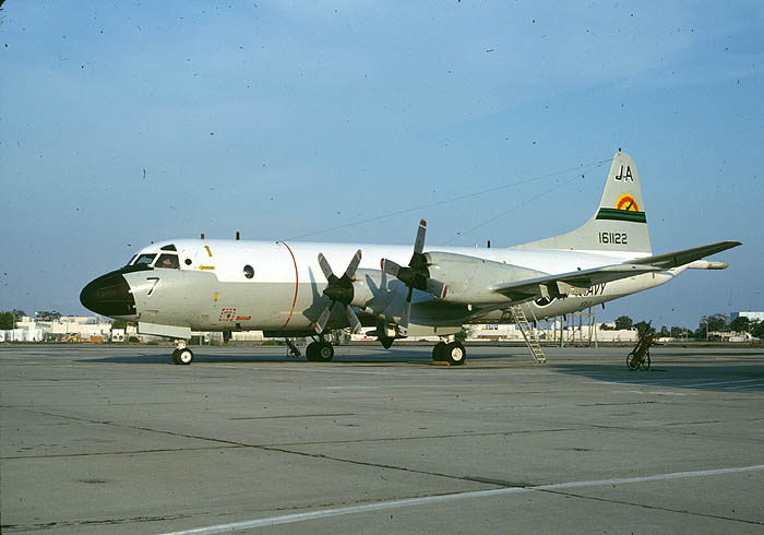 VX-1 (JA 7) P-3C (BuNo 161122) at NAS Patuxent River, September 1981. Photographed by Michael Grove. Repository: San Diego Air and Space Museum Archive